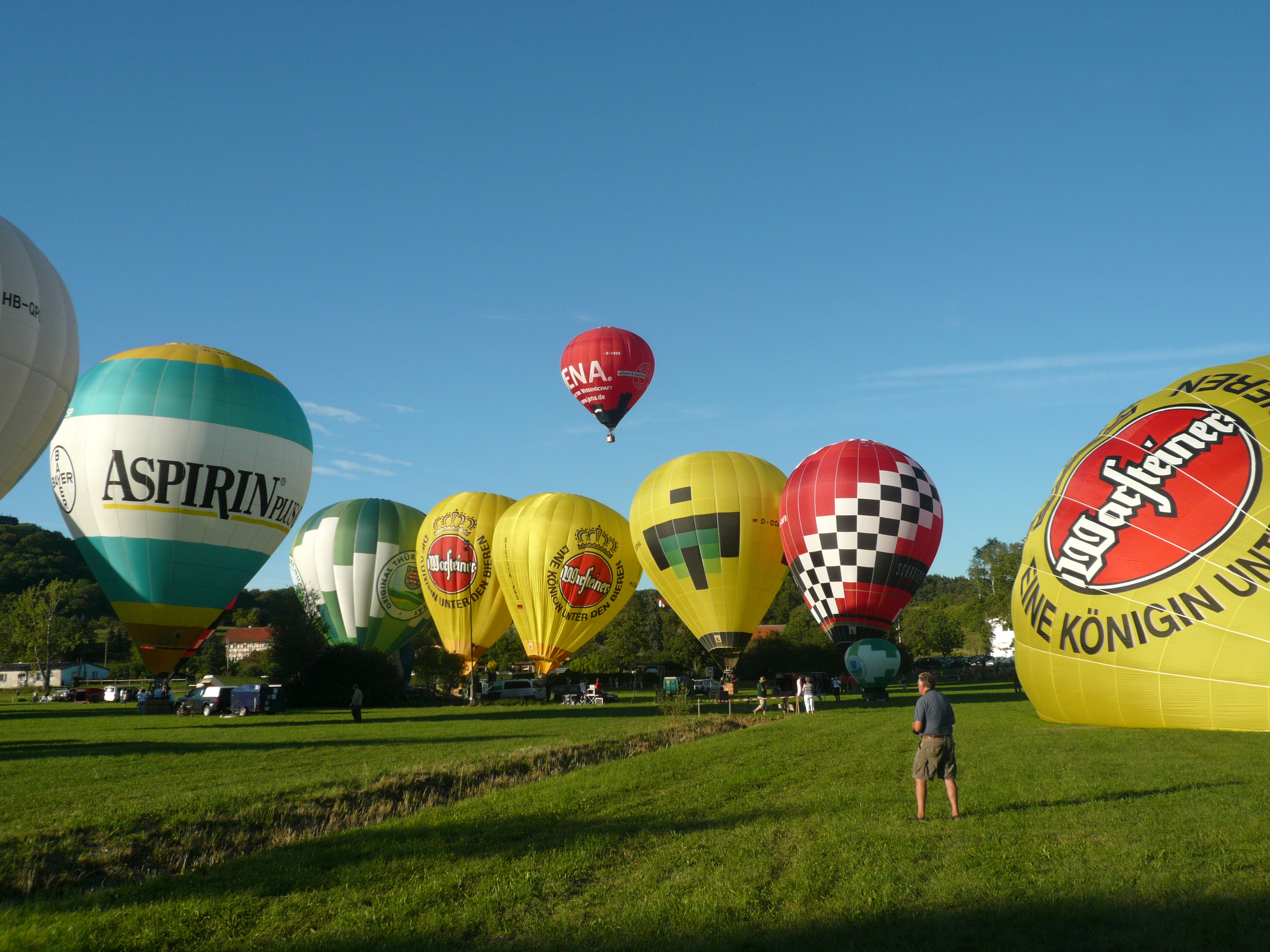 17th Thuringian Montgolfiade